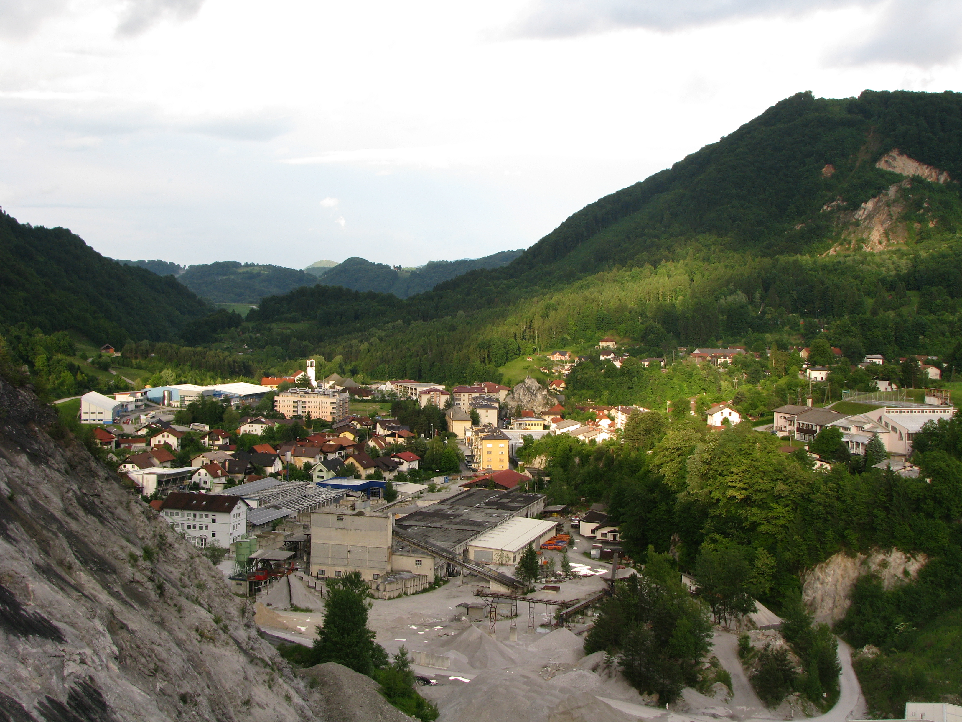 Town of Kisovec (population cca. 1700), Zagorje ob Savi municipality, Slovenia